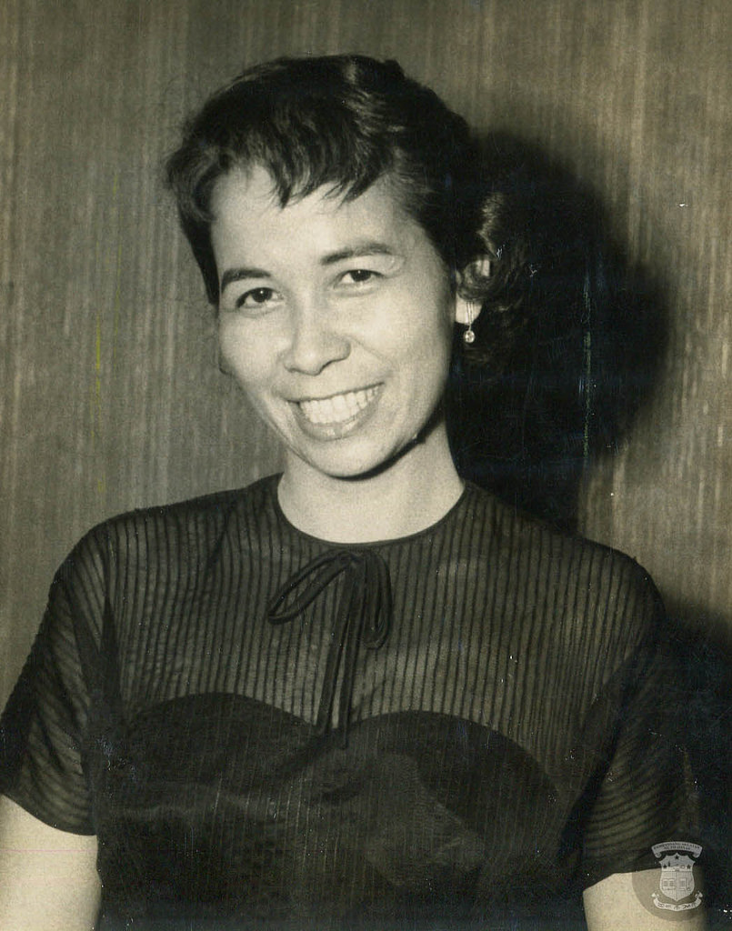 Philippine Senator Pacita Madrigal-Warns, circa 1950s